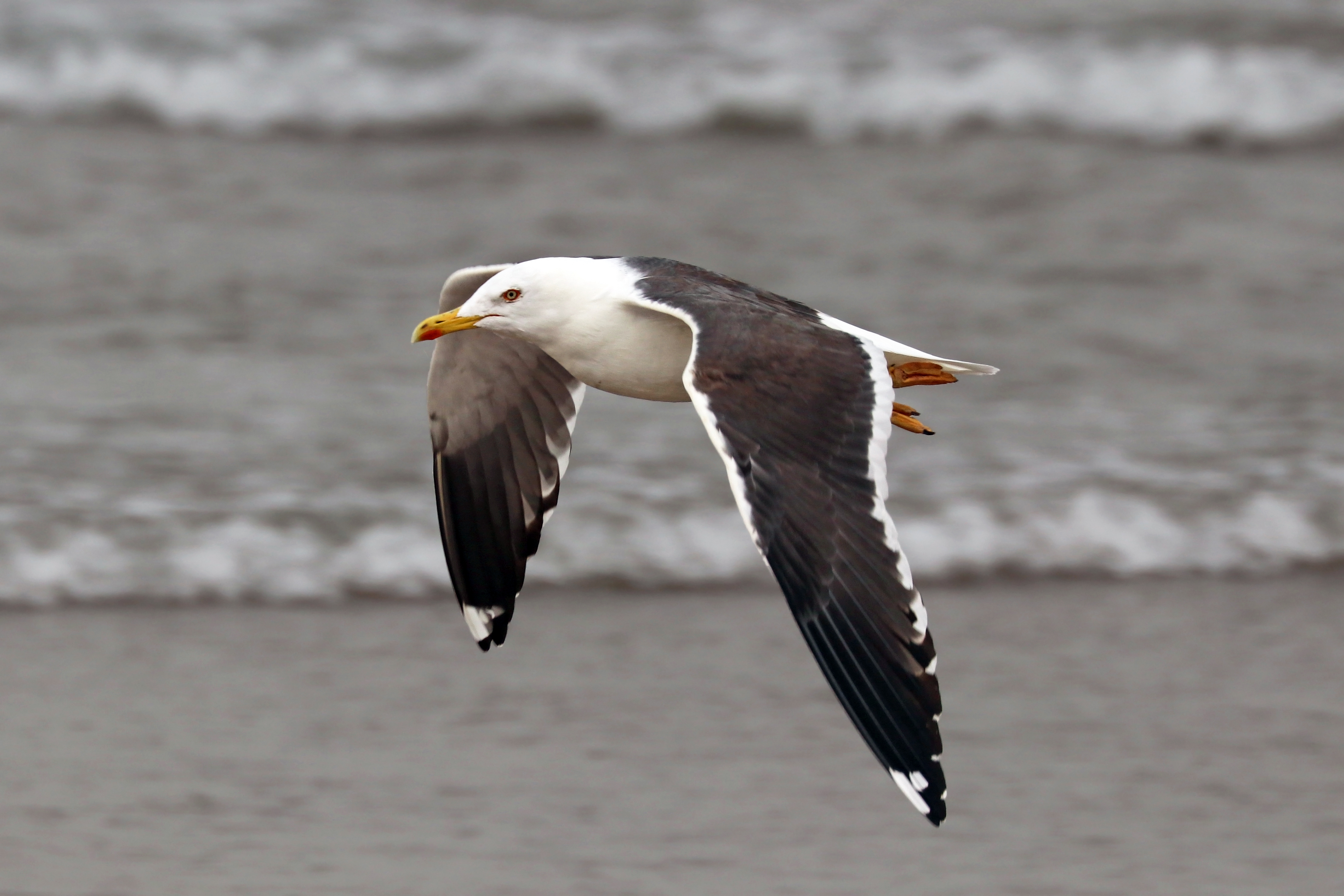 Lesser black-backed gull (Larus fuscus graellsii), Souss-Massa National Park, Morocco